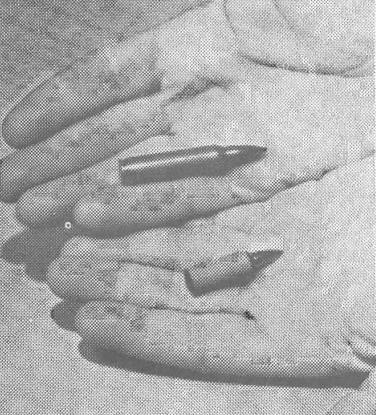 5.56 conventional brass cartridge (top) and consumable case cartridge (bottom) for the M16 rifle developed by the Army laboratories